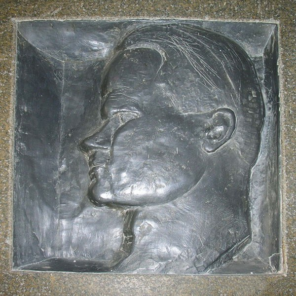 Stephen Huber Dési Plaque. Budapest XII. kerület, Pihenő út 1.